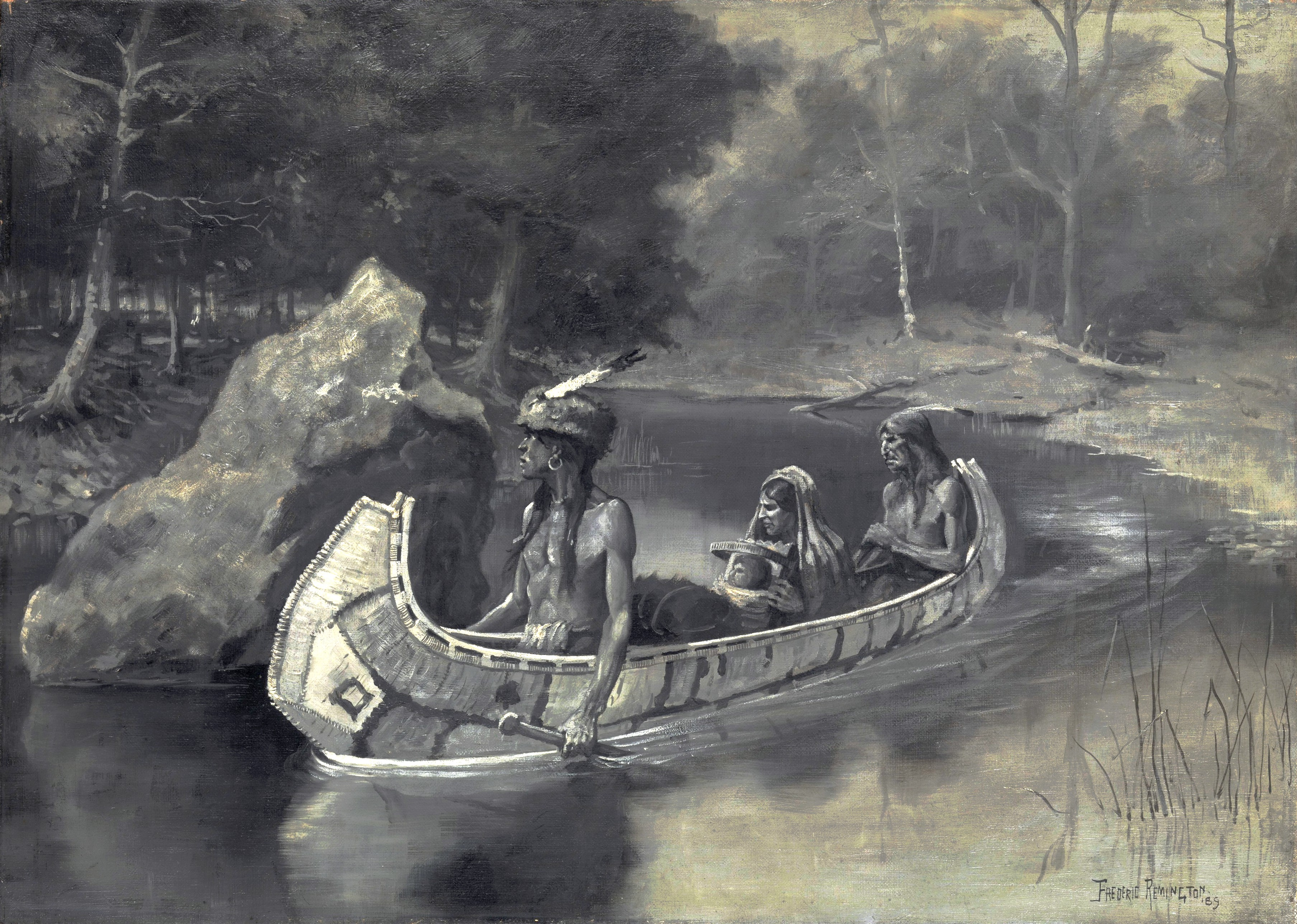 Pitched It Sheer into the River . . . Where It Still Is Seen in the Summer. Medium: Oil on canvas. Dimensions: 20 x 28 1/4in. (50.8 x 71.8cm) In 1888 Remington was commissioned to illustrate The Song of Hiawatha, the epic poem by Henry Wadsworth Longfellow, for a deluxe edition published in 1891. By then a sophisticated practitioner of the grisaille technique, Remington executed twenty-two black-and-white oil paintings, one for each of the poem’s cantos. This depiction accompanies canto 6, which describes Hiawatha’s two closest friends: Chibiabos, the musician, and Kwasind, the strong man. The jagged boulder in the river alludes to one of Kwasind’s feats of strength. Taunted with accusations of laziness, he threw a huge rock into the Pauwating River, where it remained visible above the waterline during the summer months.